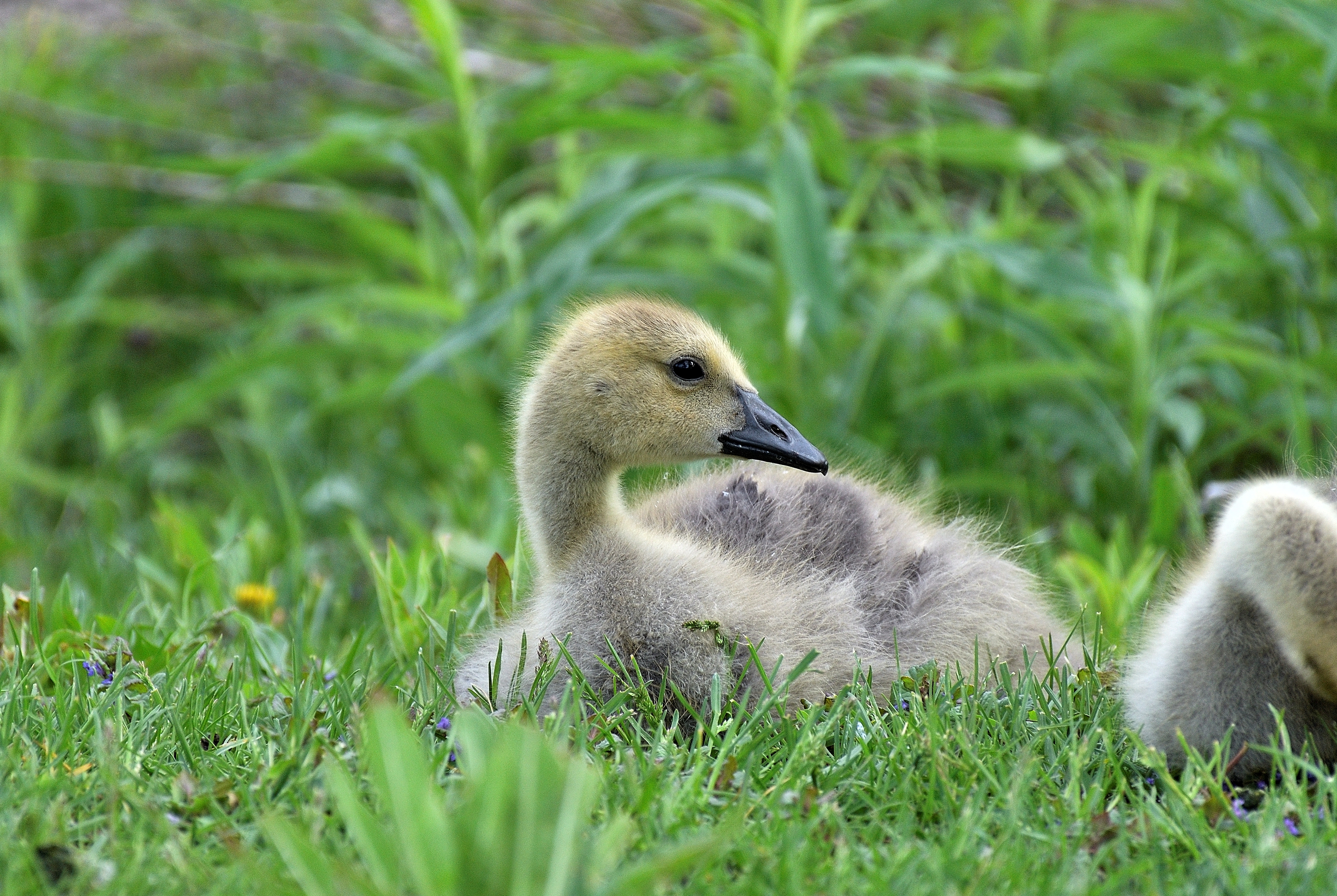 Canada goose gosling sitting amongst its clutch members and parents, spotted at a municipal park in Waterloo, Ontario.